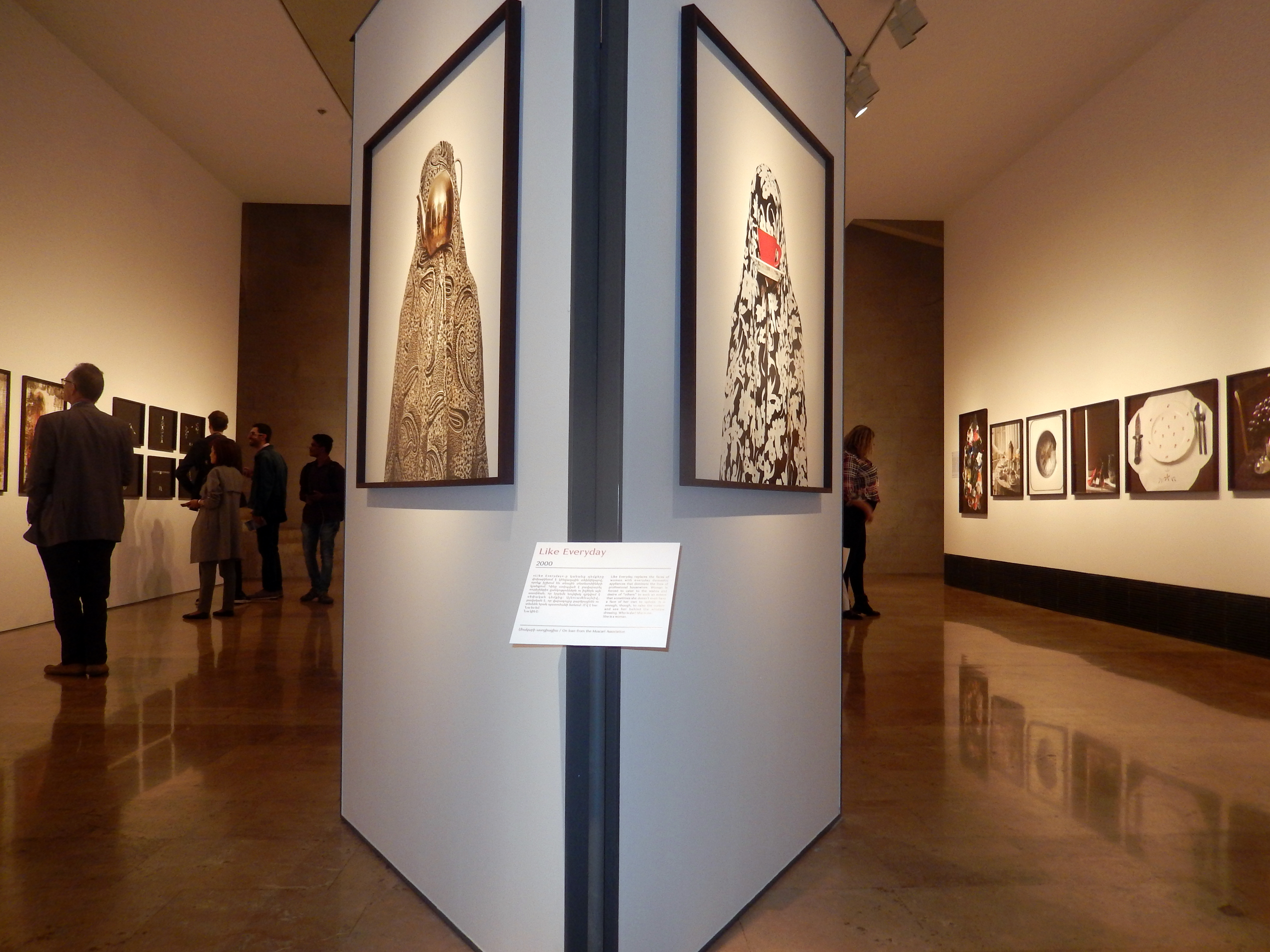 Wiki loves Yerevan tour in Cafesjian Center for the Arts